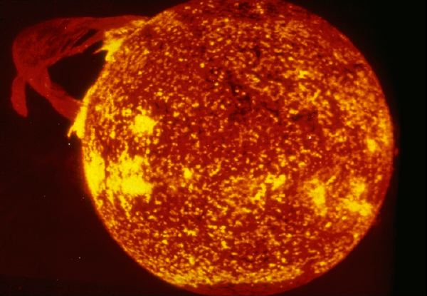 A spectacular solar flare photographed by the third crew 19 December 1973 in the light of ionized helium, using the extreme-ultraviolet spectroheliograph of the U.S. Naval Research Laboratory. The twisted sheet of gas spans 588 000 km and seems to be unwinding itself. The darker areas at the top and bottom are the solar poles.